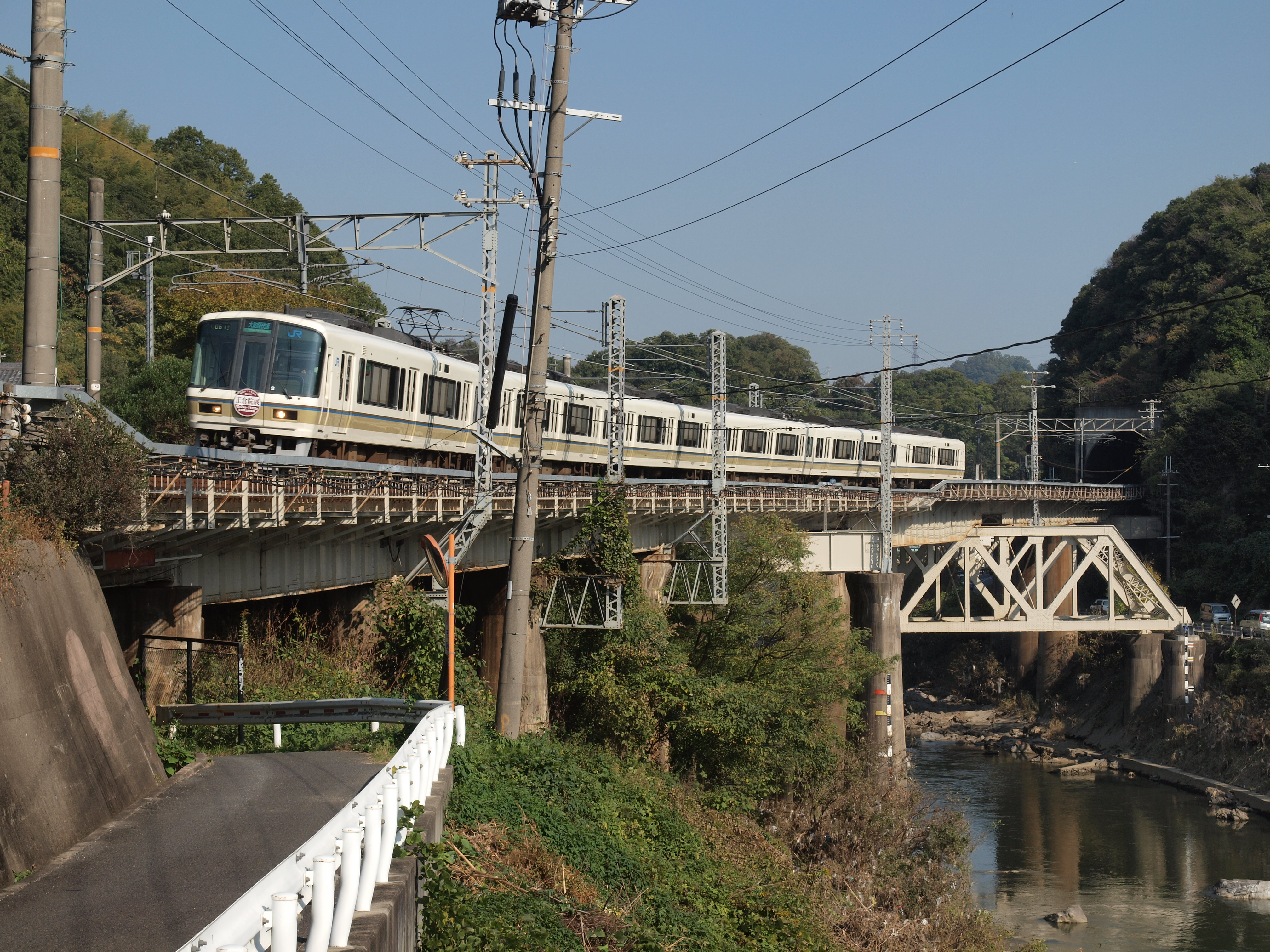 JR221 EMU on Dai-yon Yamatogawa kyoryo